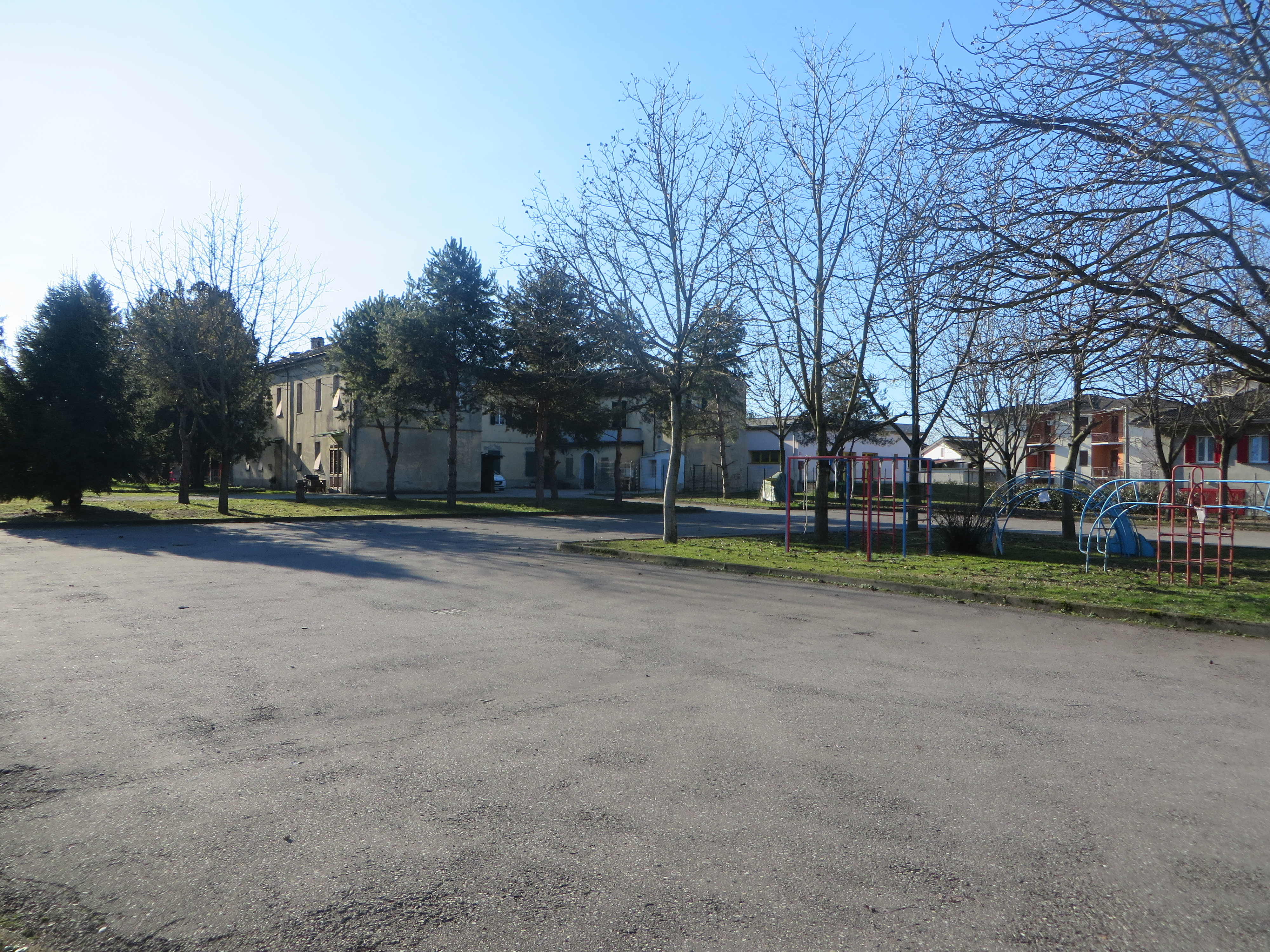 Old monastry